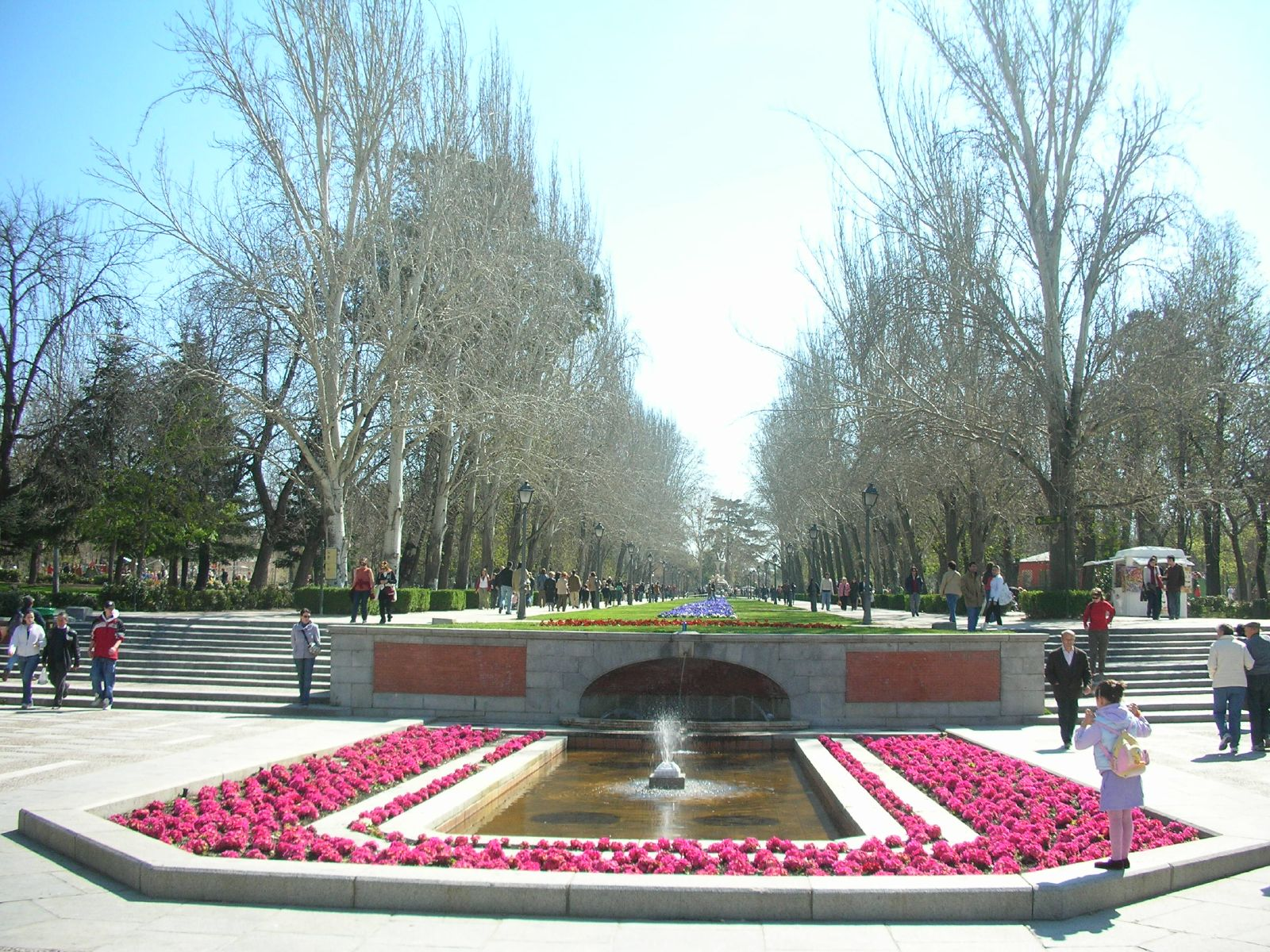 A view of Avenida de México ("Mexico Avenue") from one of the entrances (named Puerta de la Independencia) of Retiro Park (Jardines del Buen Retiro) in Madrid (Spain).